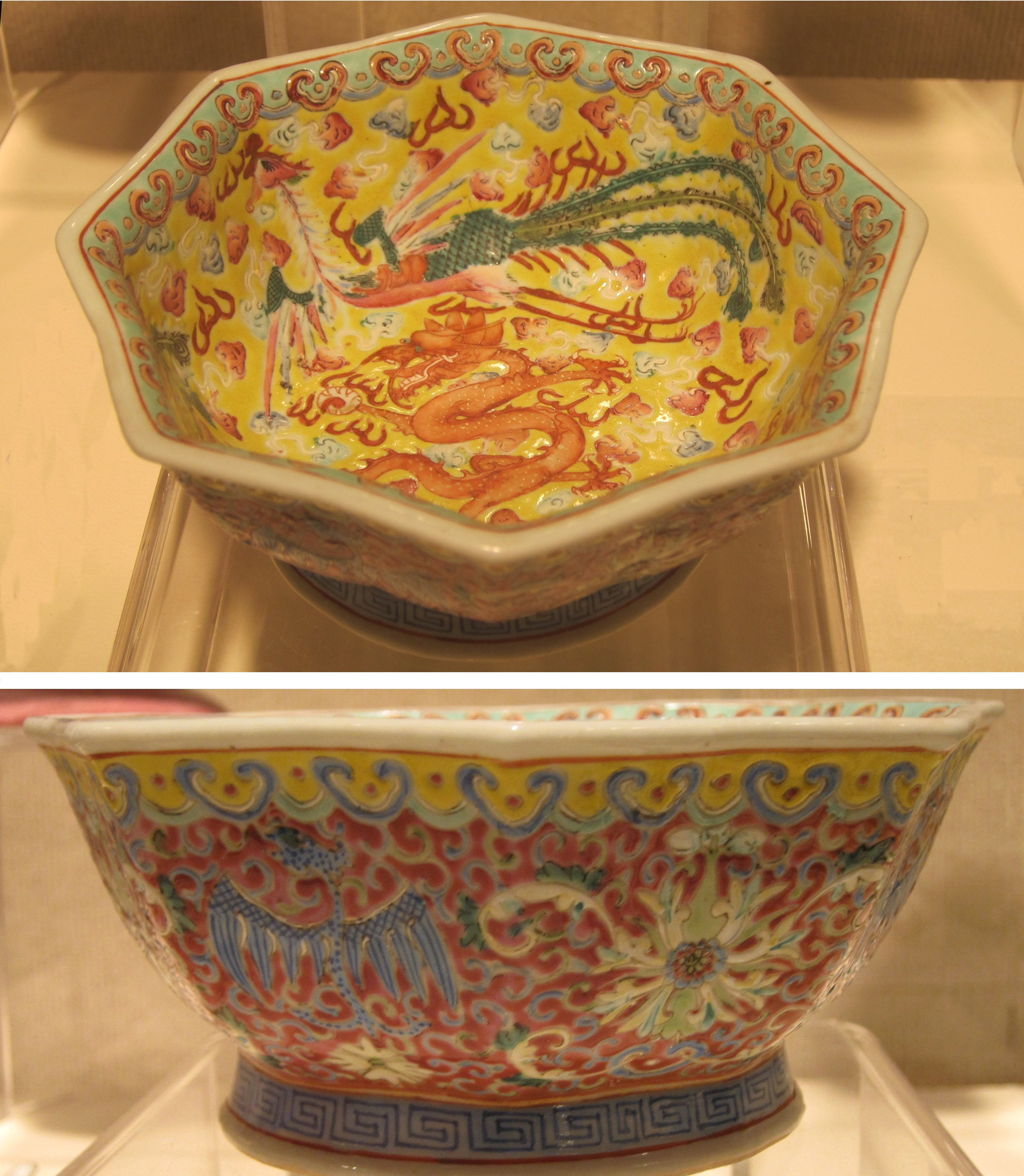 Octagonal bowl with dragon and phoenix designs, China, 20th century, glazed ceramic, Doris Duke Foundation